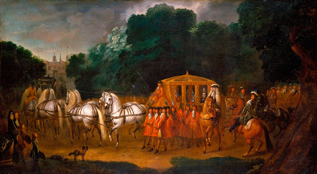 Queen Anne's Procession to the Houses of Parliamen